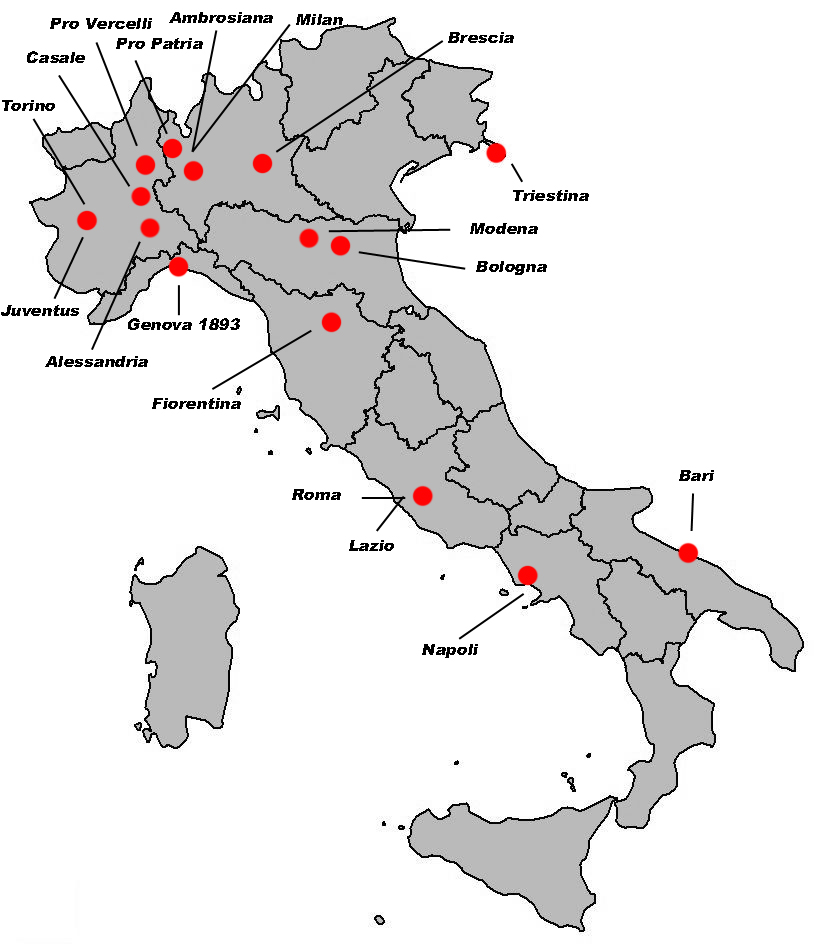 Author: User:CapPixel Source: Blank Italy map on Wikimedia Commons Tag: Serie A 1931-32 team locations